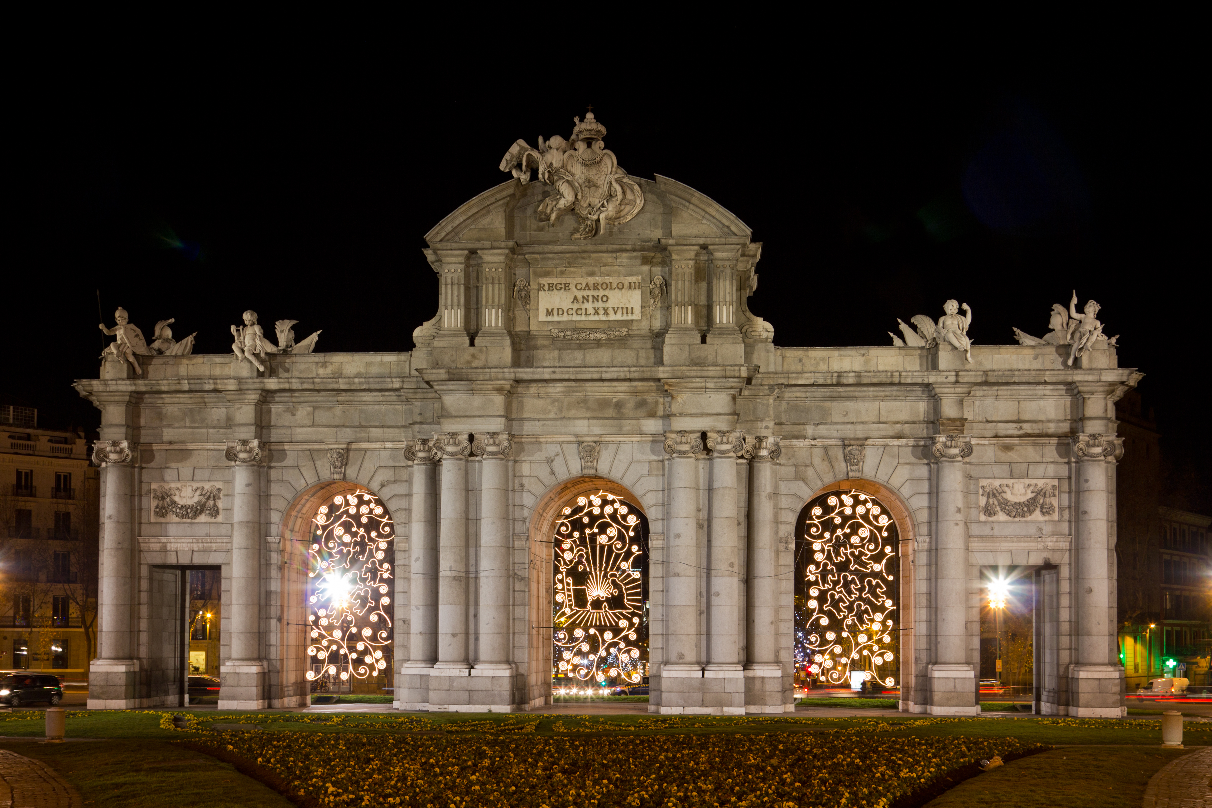 Puerta de Alcalá at night, Madrid, Spain.